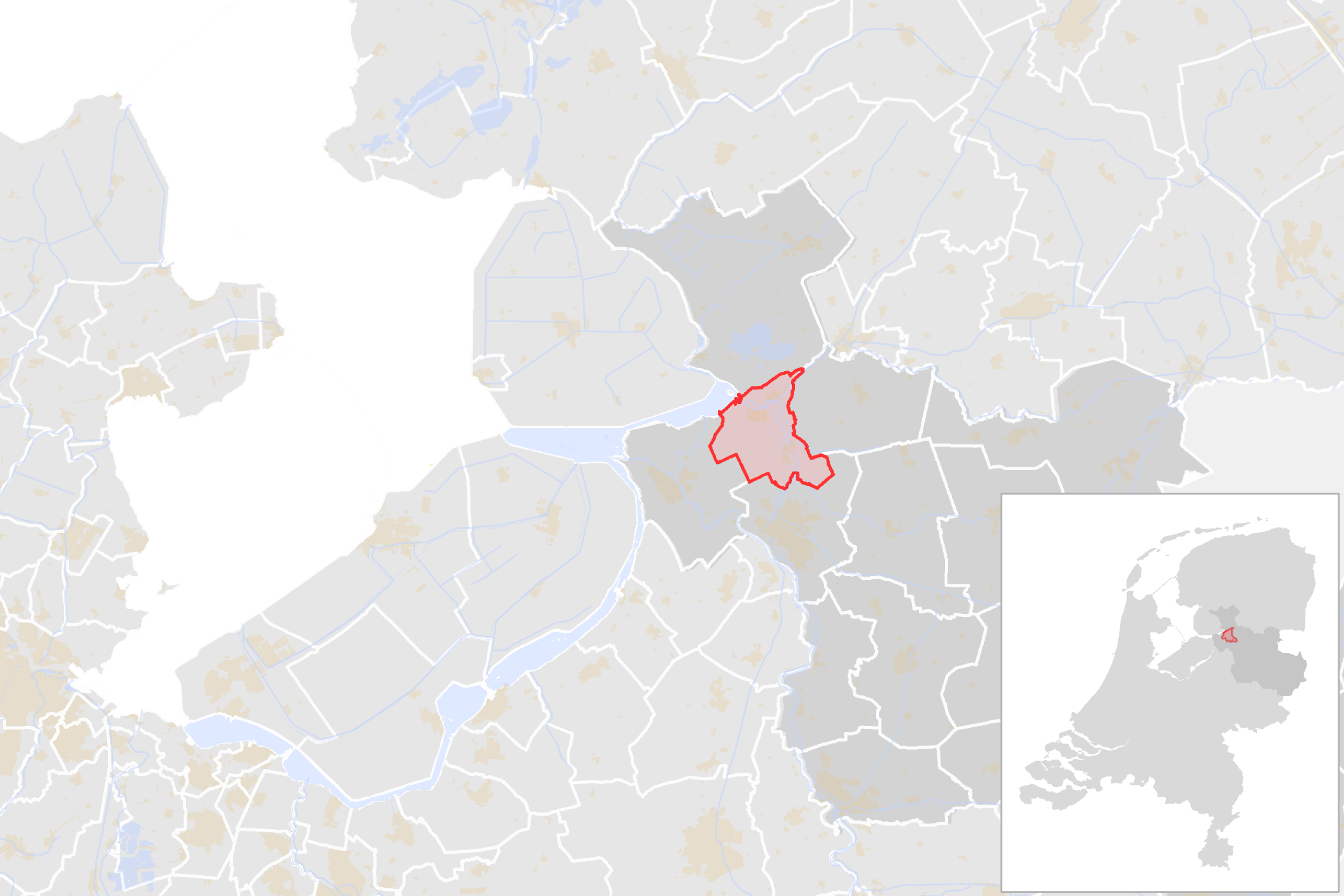 Locator map showing municipality boundary of one of the 390 Dutch municipalities (as of 2016)